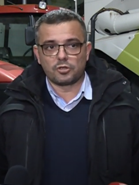 Branislav Nedimović, Serbian Minister of Agriculture